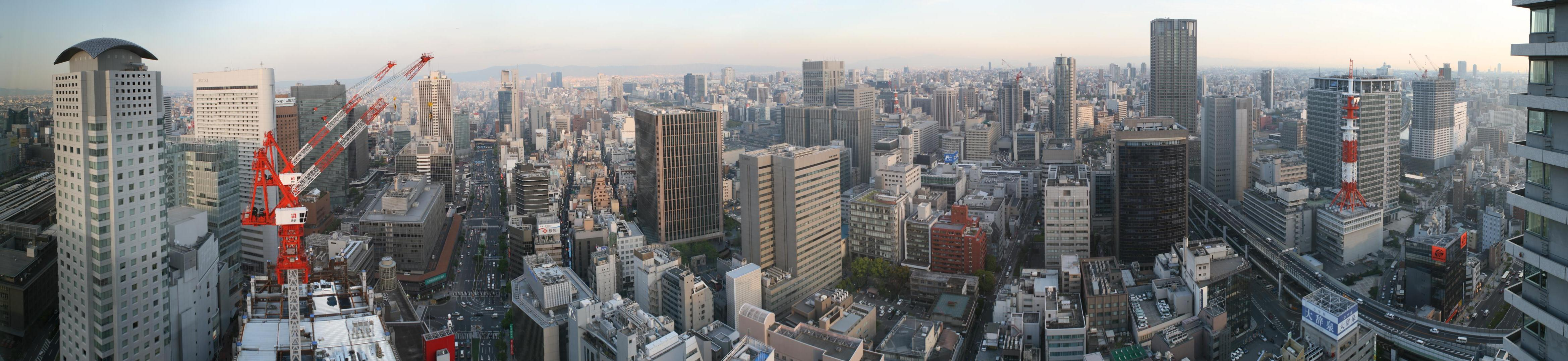 Panoramic view of the Skyline of Osaka Umeda from the Ritz Carlton hotel. Picture assembled from 12 individual shots using PanoTools.